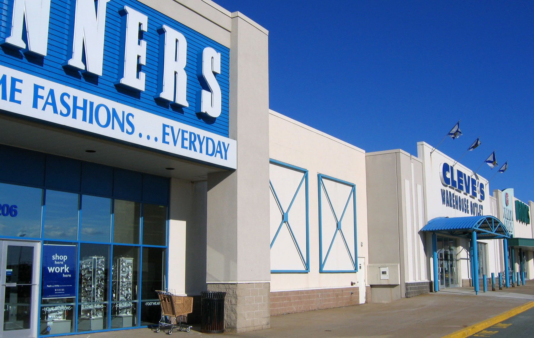 Bayers Lake Business Park stores